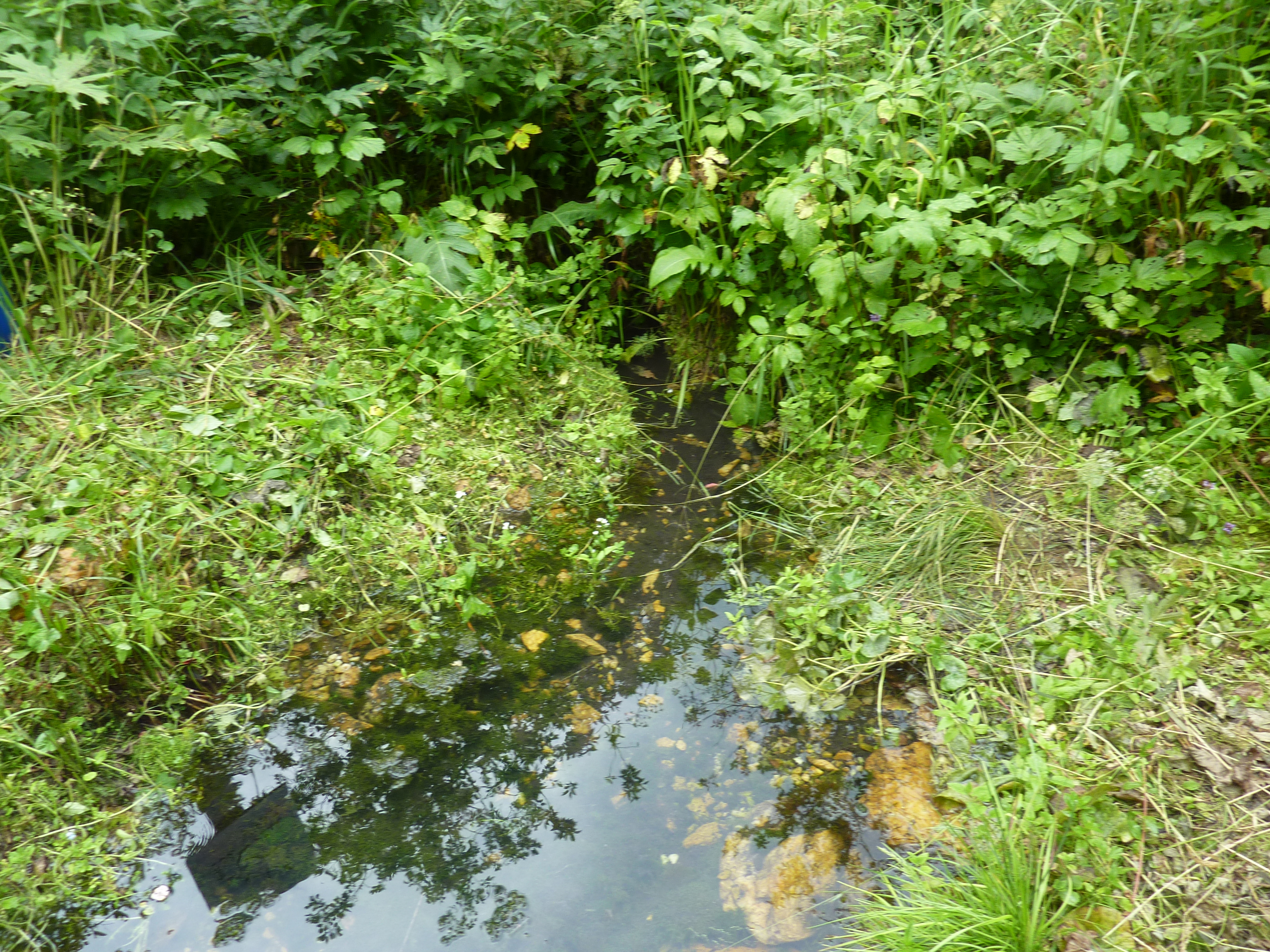 Spring from which flows the Ural river.